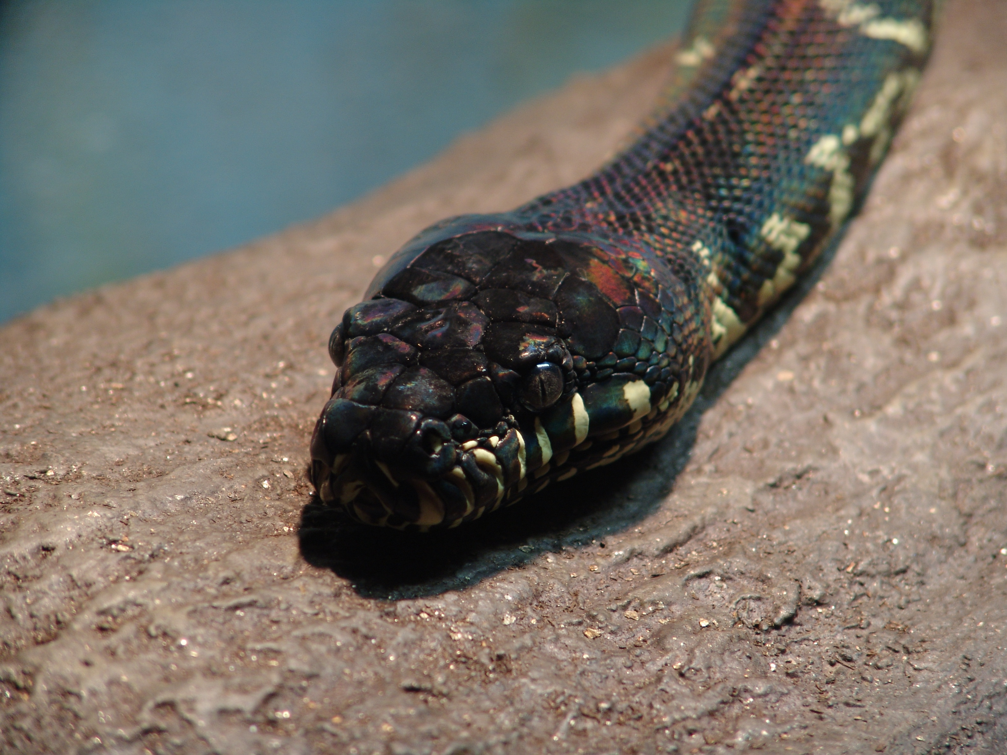 Boelen Python at Wilmington's Serpentarium. I took the picture.